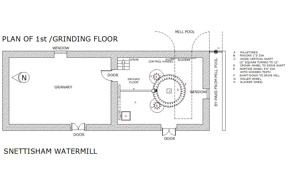 A J-peg Image made from an AutoCAD file of Snettisham Watermill Plan 11/10/2007